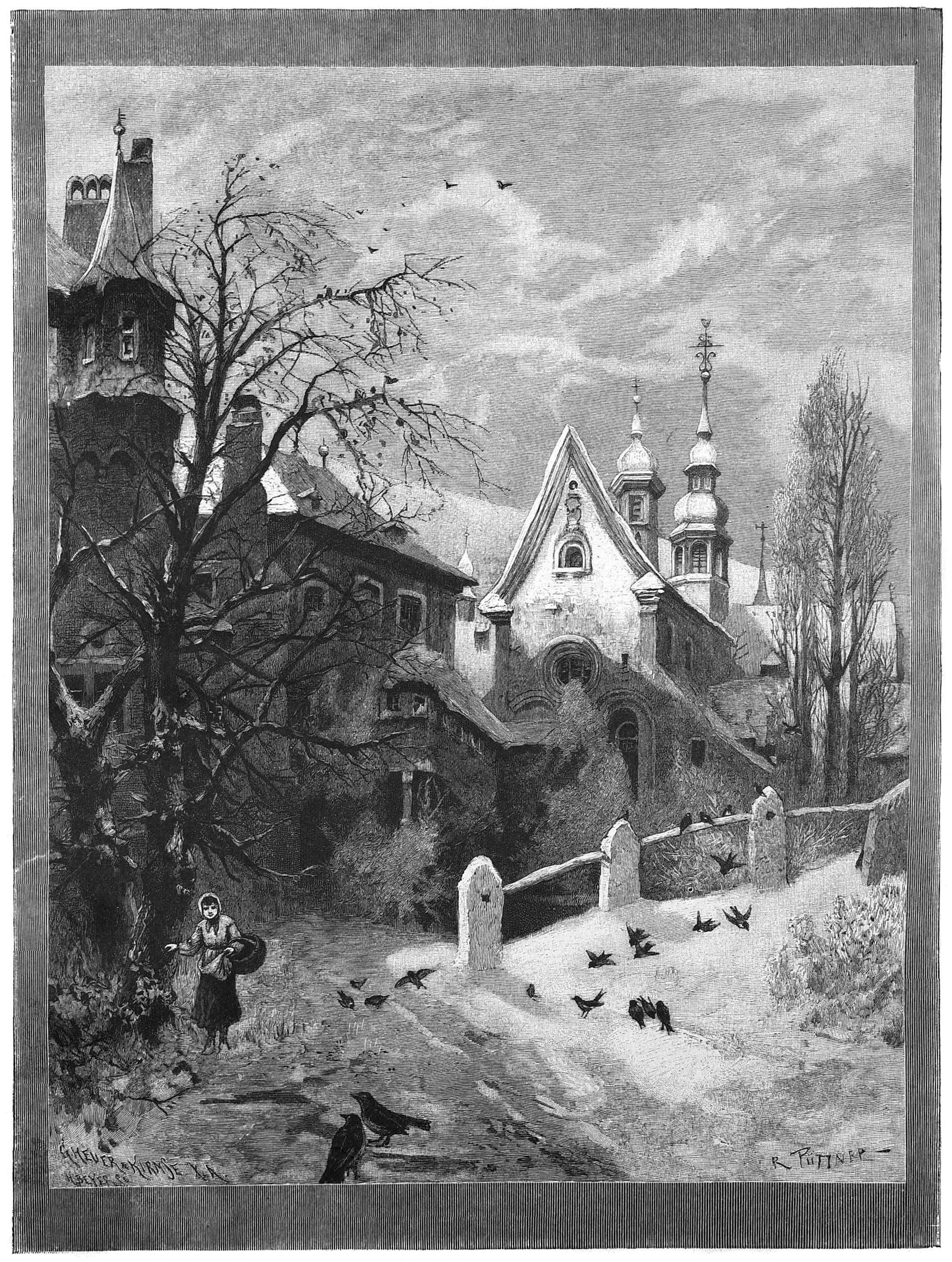 caption: "Kloster Eberbach. Originalzeichnung von Richard Püttner."